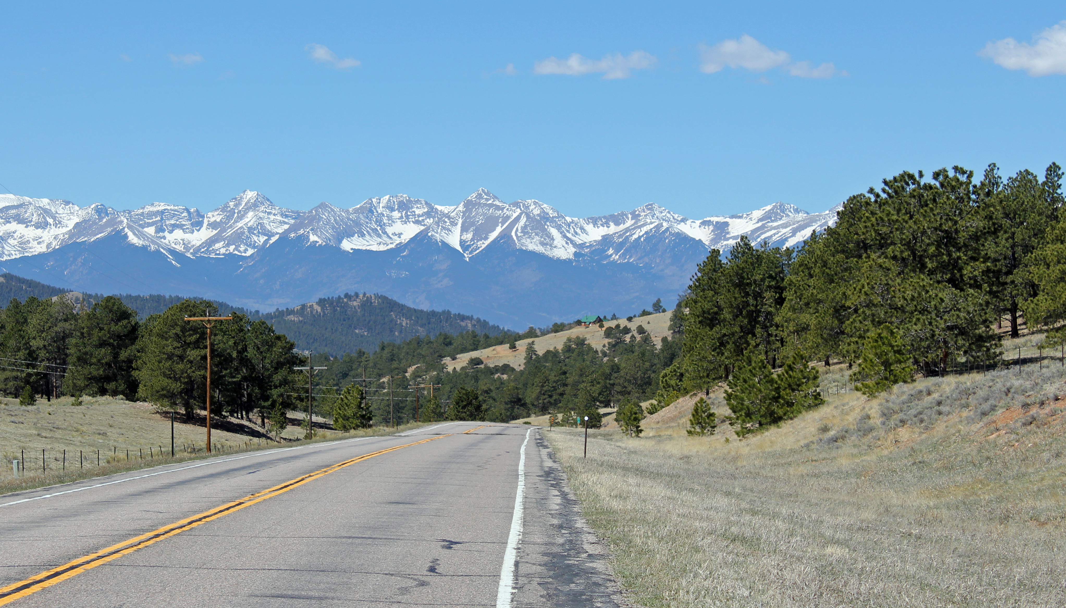 Hardscrabble Pass, located in the Wet Mountains between Wetmore, Colorado, and Westcliffe Colorado. The road is Colorado State Highway 96.